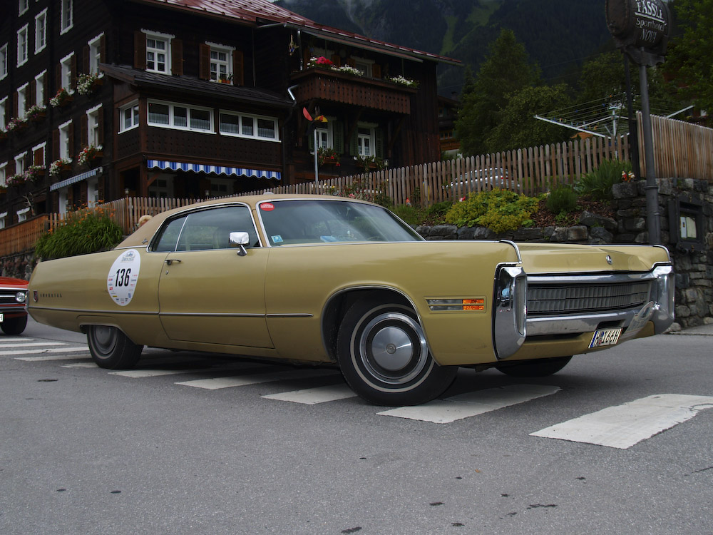 1972 Imperial HY-M Series 2 Door Coupe